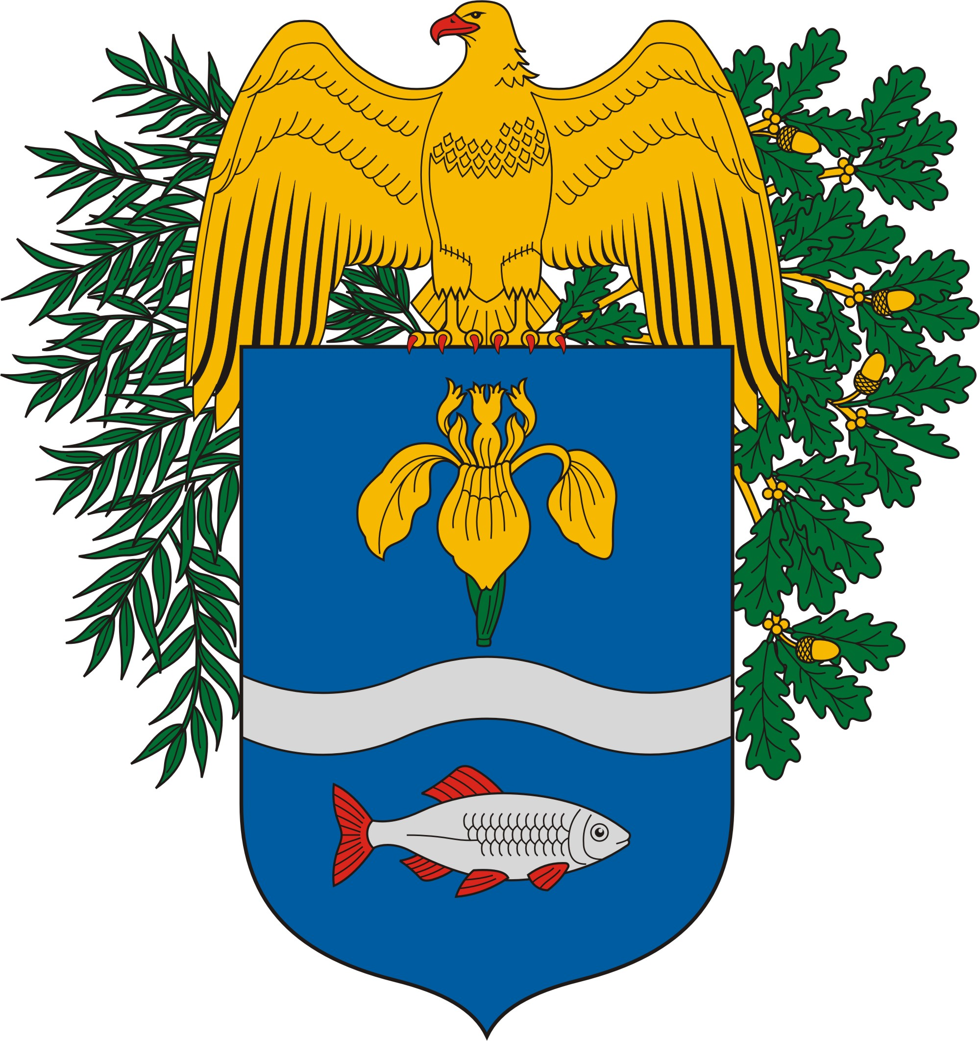 Coat of arms of Mártély, Hungary